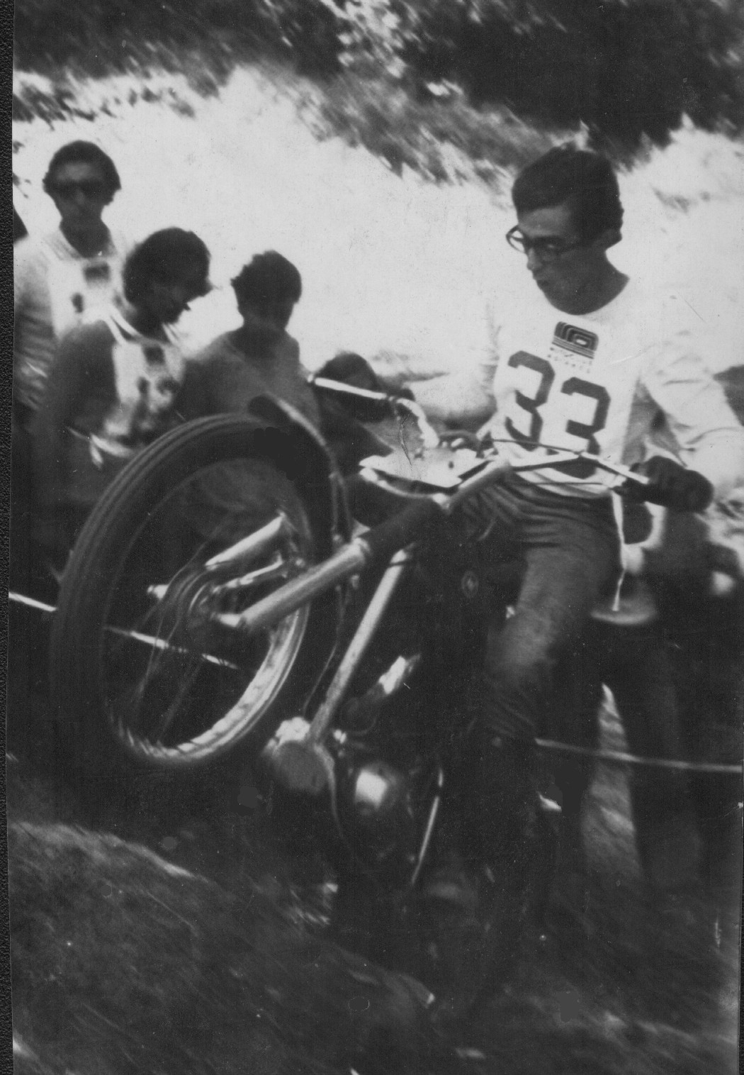 Jordi Fornas on the Montesa Cota 247 during the Trial of Moià (1971)